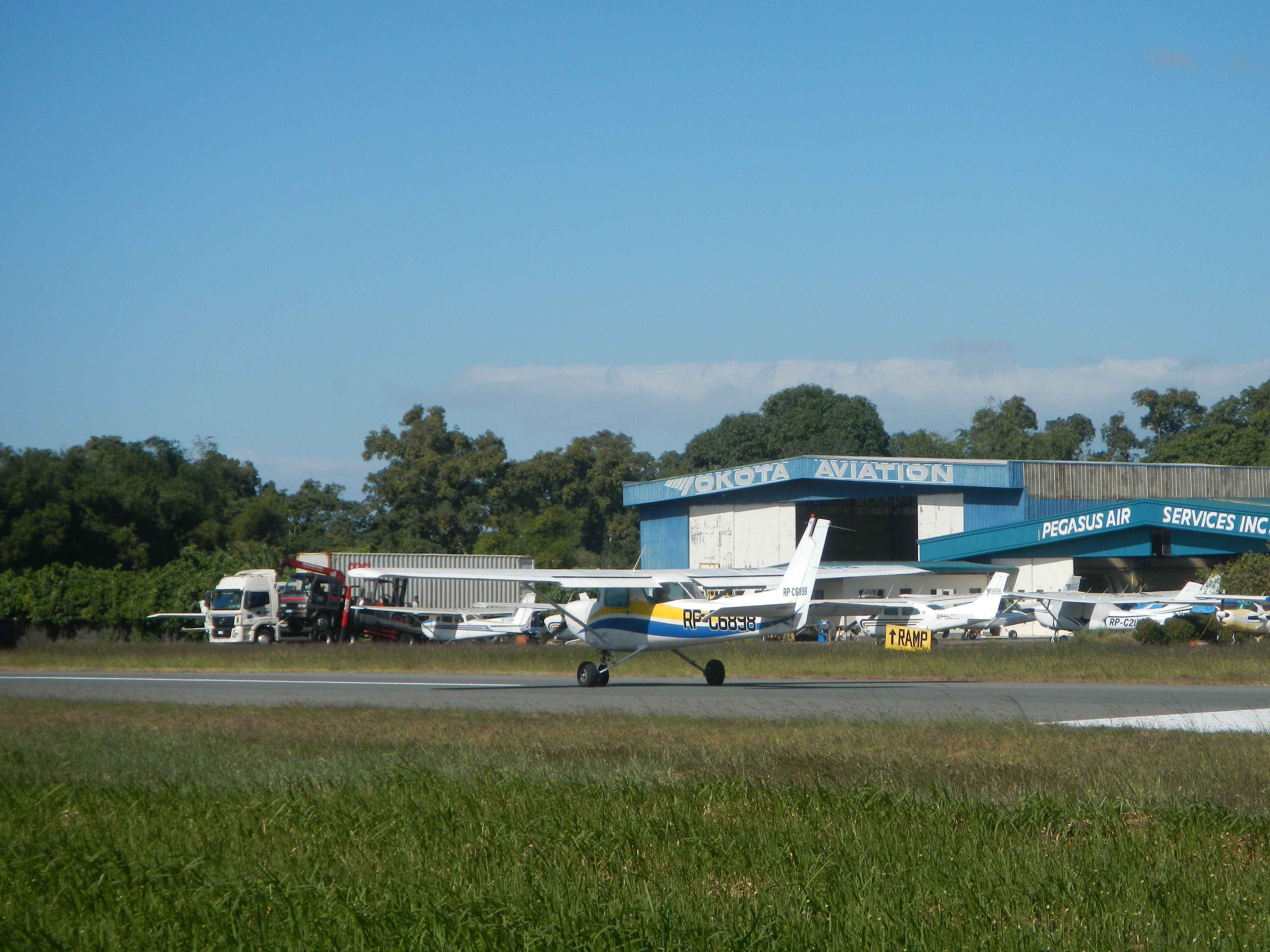 Plaridel Airport 14°53'27"N 120°51'11"E Plaridel Airport Plaridel Cockpit Arena Plaridel Airport Apron and Helipads Plaridel Airport Control Tower Plaridel Airport Terminal parked planes and aviation schools (from Governor Padilla Road (Agnaya-Banga 1st-Poblacion, Plaridel, Bulacan) Paddy fields, grasslands, trees and irrigation (Agnaya-Lumang Bayan-Sipat, Plaridel, Bulacan Farm-to-Market Road) P 1.875 million cost; El Runway Hotel (Agnaya-Lumang Bayan, Plaridel, Bulacan Farm-to-Market Road) Bigaa-Plaridel via Bulacan and Malolos City, Bulacan Road of the Governor Padilla Road 14°53'11"N 120°51'42"E in Barangays Agnaya 14°53'5"N 120°51'25"E Lumang Bayan 14°53'35"N 120°51'17"E beside Sipat 14°53'51"N 120°50'5"E Dampol 14°53'39"N 120°49'30"E Rueda 14°53'33"N 120°48'46"E Plaridel, Bulacan (Note: Judge Florentino Floro, the owner, to repeat, Donor Florentino Floro of all these photos hereby donate gratuitously, freely and unconditionally all these photos to and for Wikimedia Commons, exclusively, for public use of the public domain, and again without any condition whatsoever).